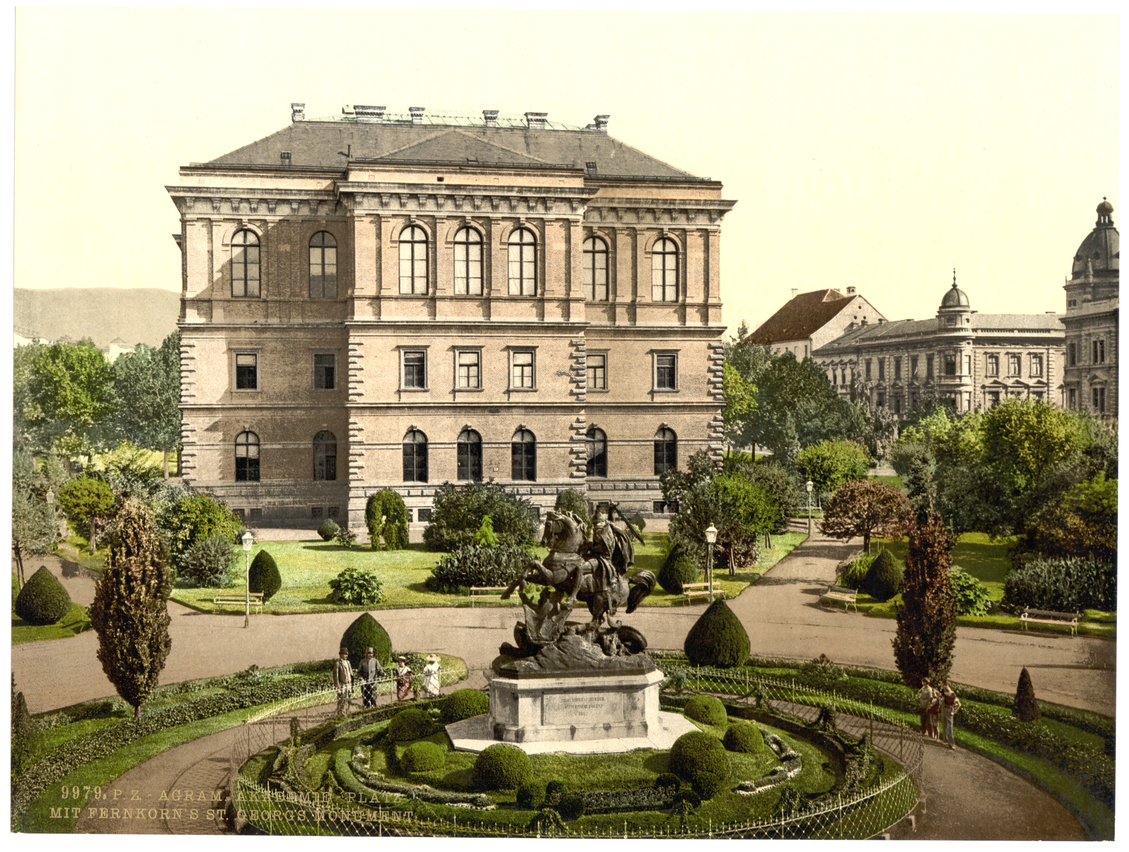 Forms part of: Views of the Austro-Hungarian Empire in the Photochrom print collection.; Title from the Detroit Publishing Co., Catalogue J-foreign section, Detroit, Mich. : Detroit Publishing Company, 1905.; Print no. "9979".